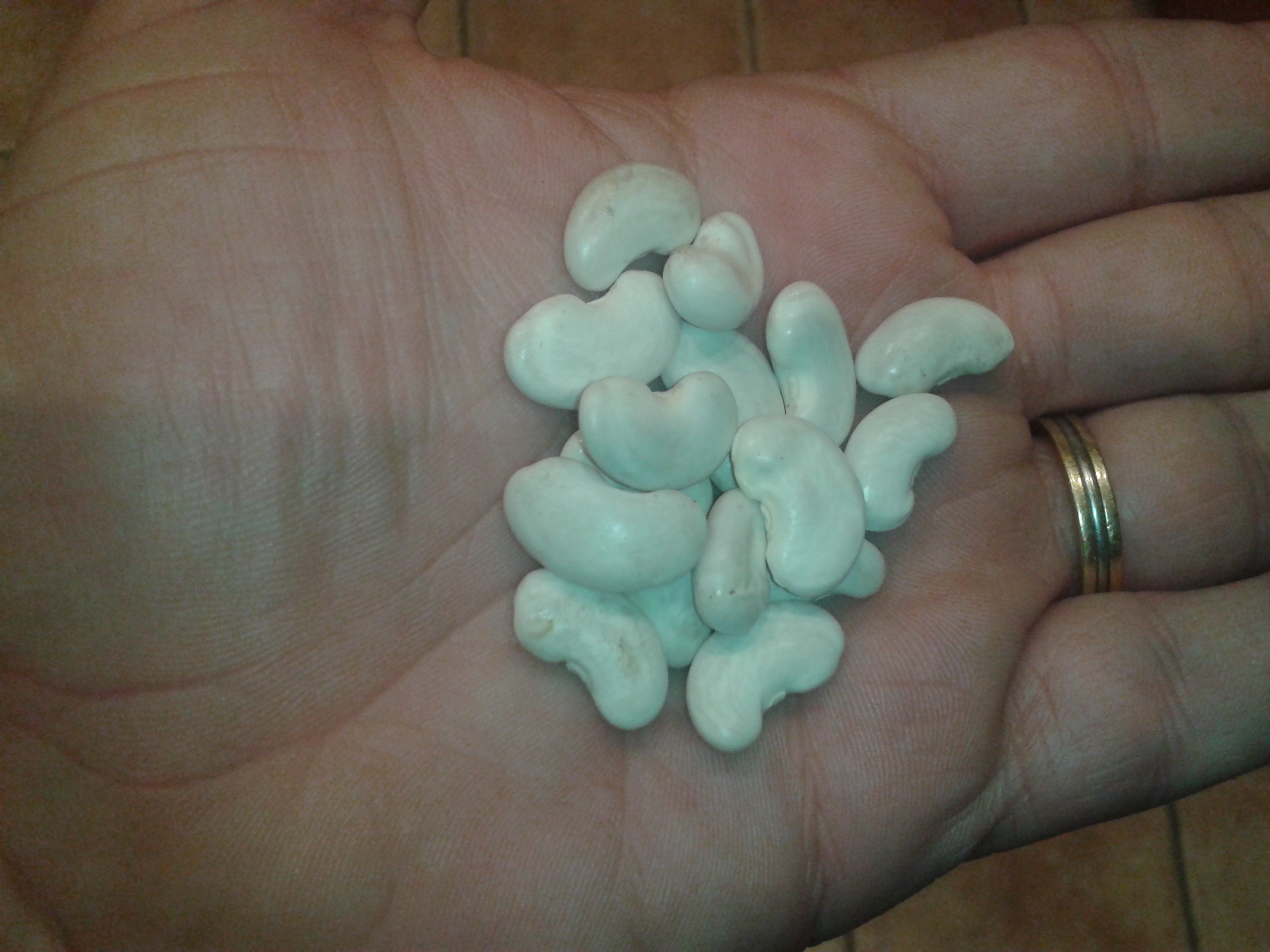 Mongeta del Ganxet, Hook Bean in Catalan.